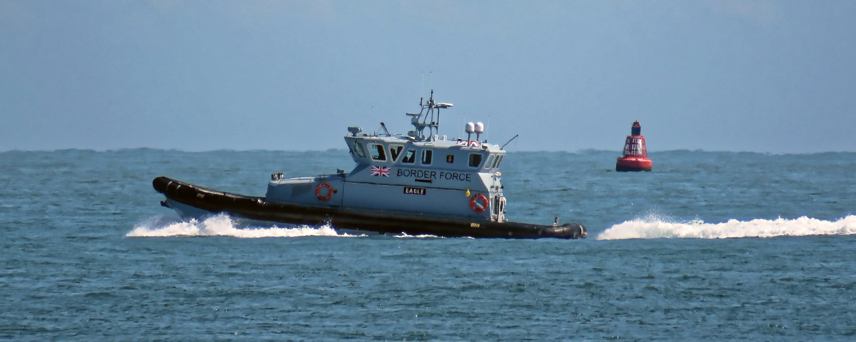 HMCPV Eagle a Border Force 20 metre-long rigid-hulled inflatable craft with a crew of six and speed in excess of 30 knots (35mph), one of four from 2016 tasked largely with intercepting illegal immigrant traffickers attempting landings in Kent and Sussex from France following the demolition of the Calais Jungle, patrolling eastbound one mile off the coast, with photo taken from Victoria Parade on Viking Bay, at Broadstairs in Kent, England.Camera: Canon PowerShot SX60 HSSoftware: File lens-corrected, optimized, perhaps cropped, with DxO OpticsPro 11 Elite, and likely further optimized with Adobe Photoshop CS2.